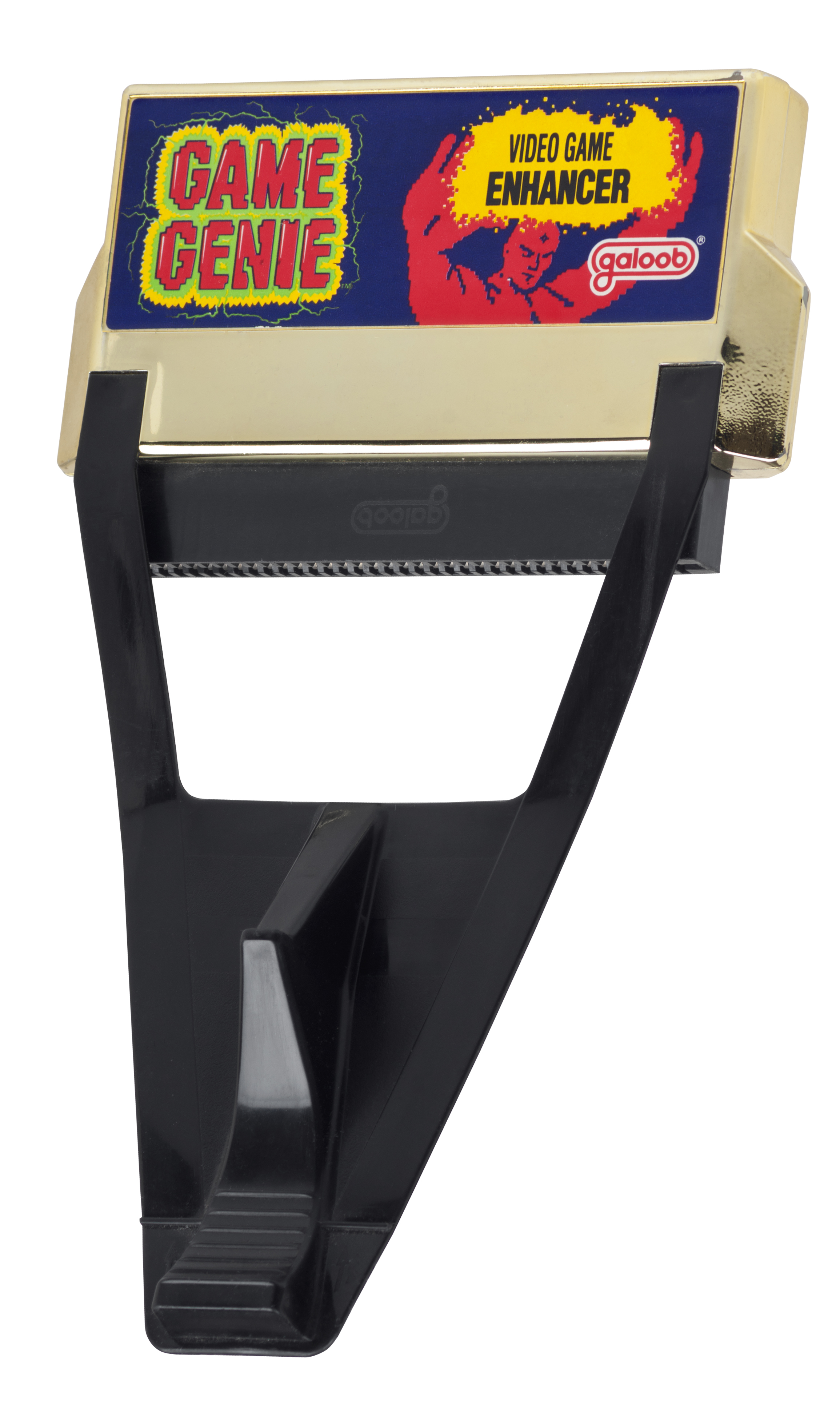 The Game Genie for the NES, made by Galoob. This is a cheat device that allowed for things like extra lives or invincibility.